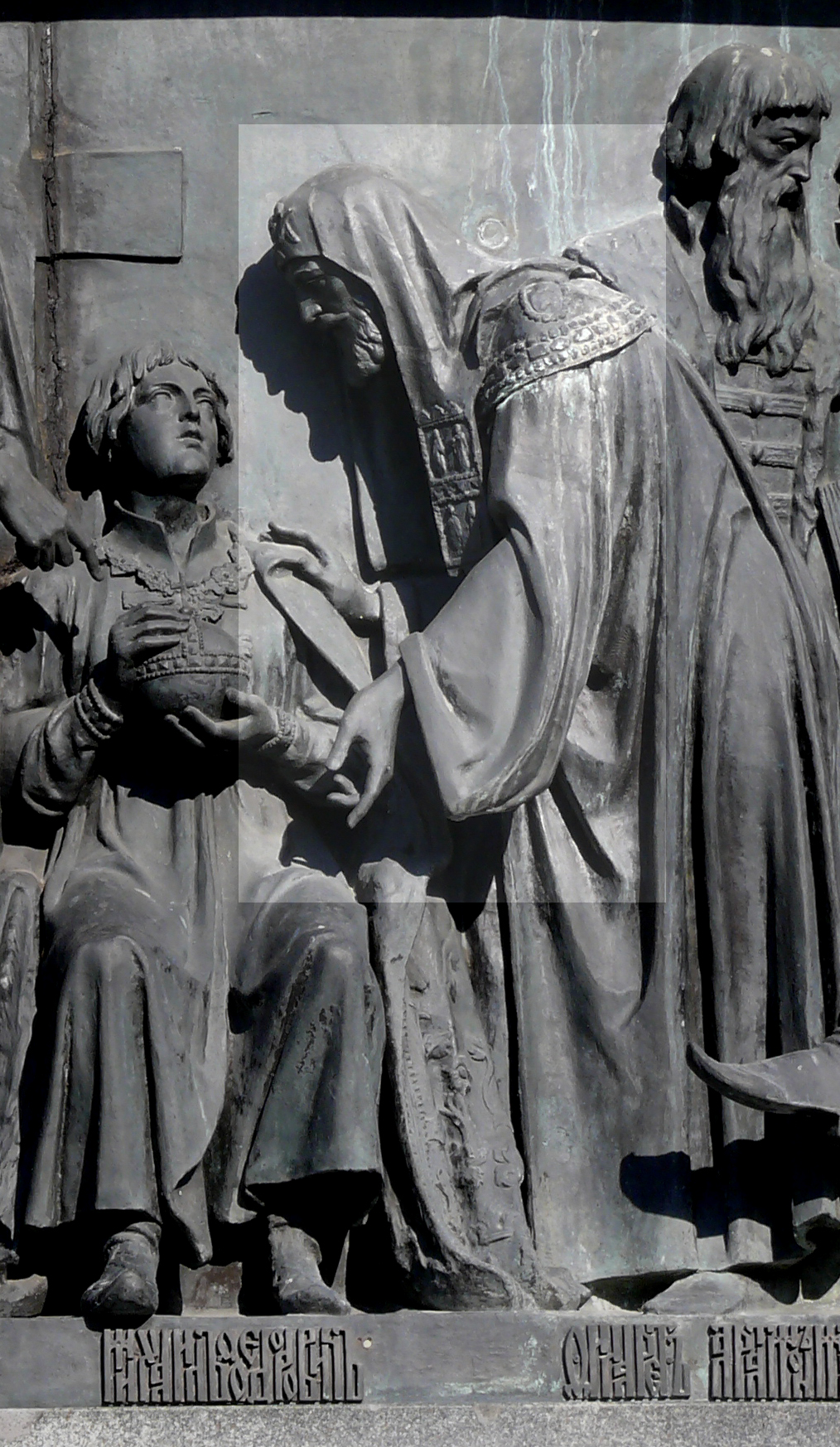 Patriarch Filaret on the Monument "Millennuim of Russia" in Veliky Novgorod